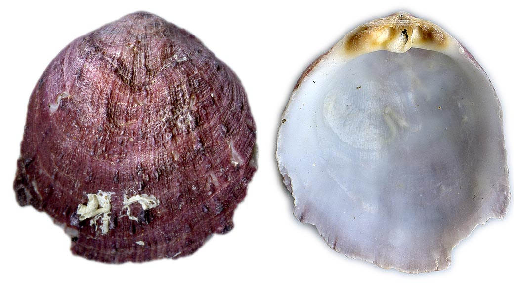 Spondylus gaederopus, Mediterranean Sea, Spain, Costa bRava, Playa d'Aro, Cap Roig, rocky shore, September 2004, shown is the upper valve from outside (with quite short thornes) and the inside with the hinge-line